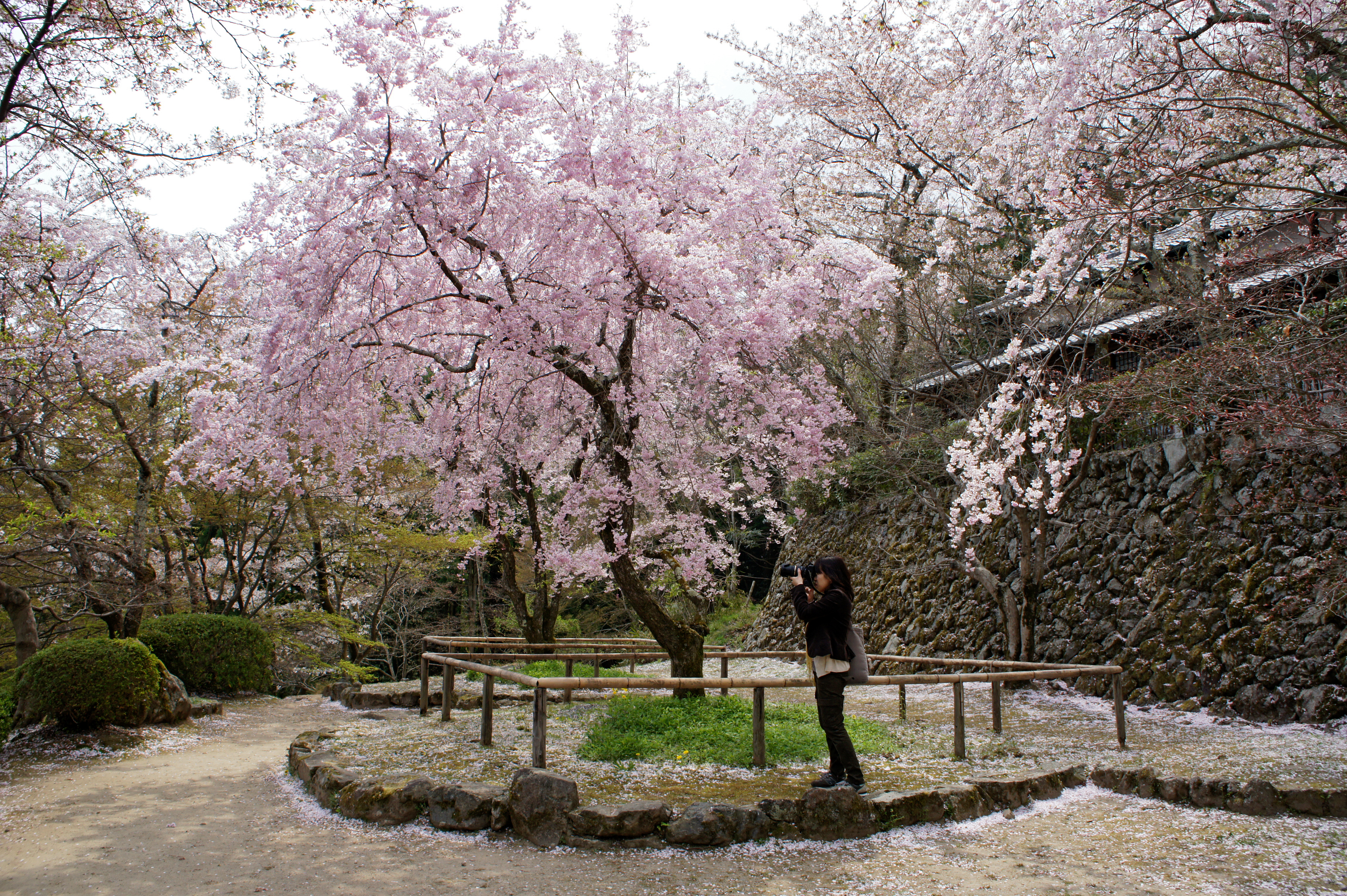 Shoji-ji in Nishikyo-ku, Kyoto, Kyoto prefecture, Japan